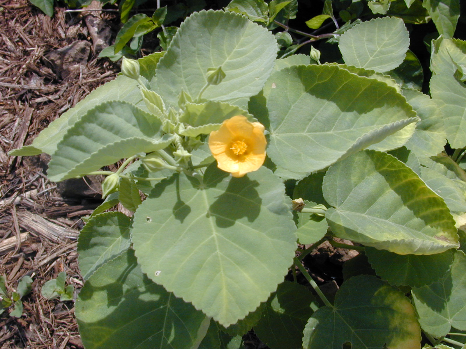 Sida fallax; flower, buds, and leaves. Photographed by Eric Guinther (Marshman at en.wikipedia) in Hawai'i, where species ('ilima) is indigenous native.